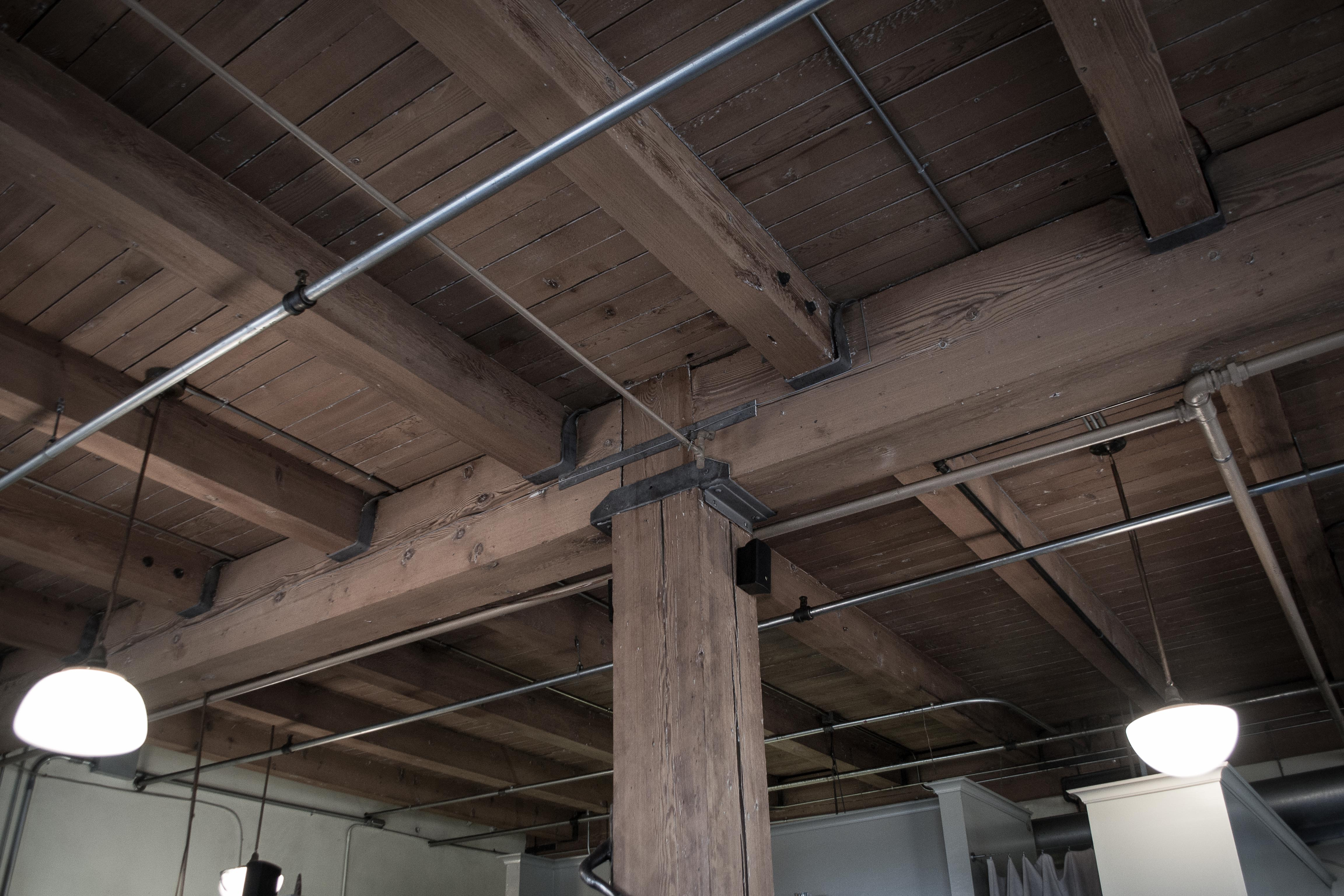 Post and lintel construction is evident in this view of the first floor interior of the Lipman Wolfe Warehouse in the East Portland Grand Avenue Historic District